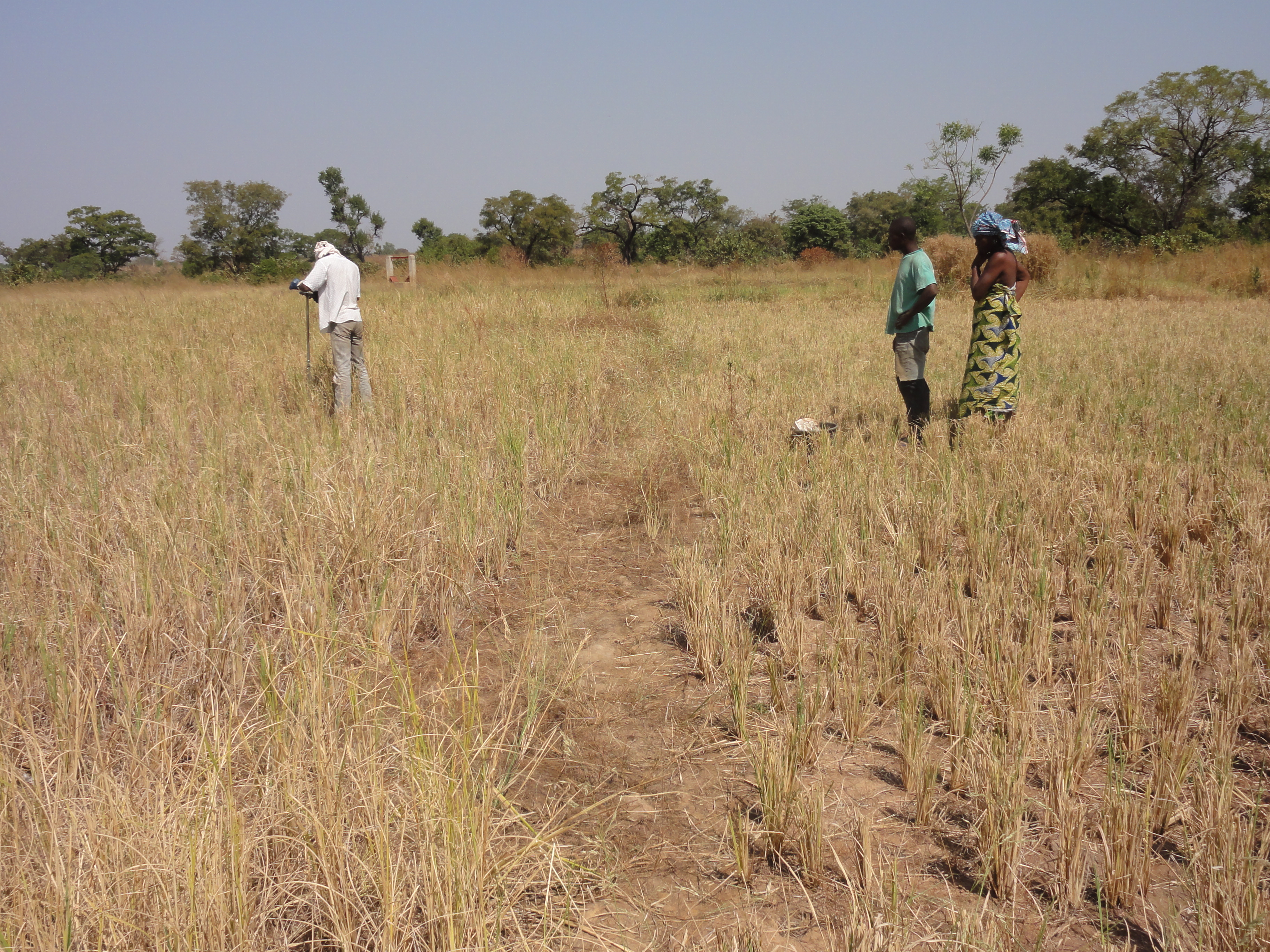 Rice cultivation in Benin